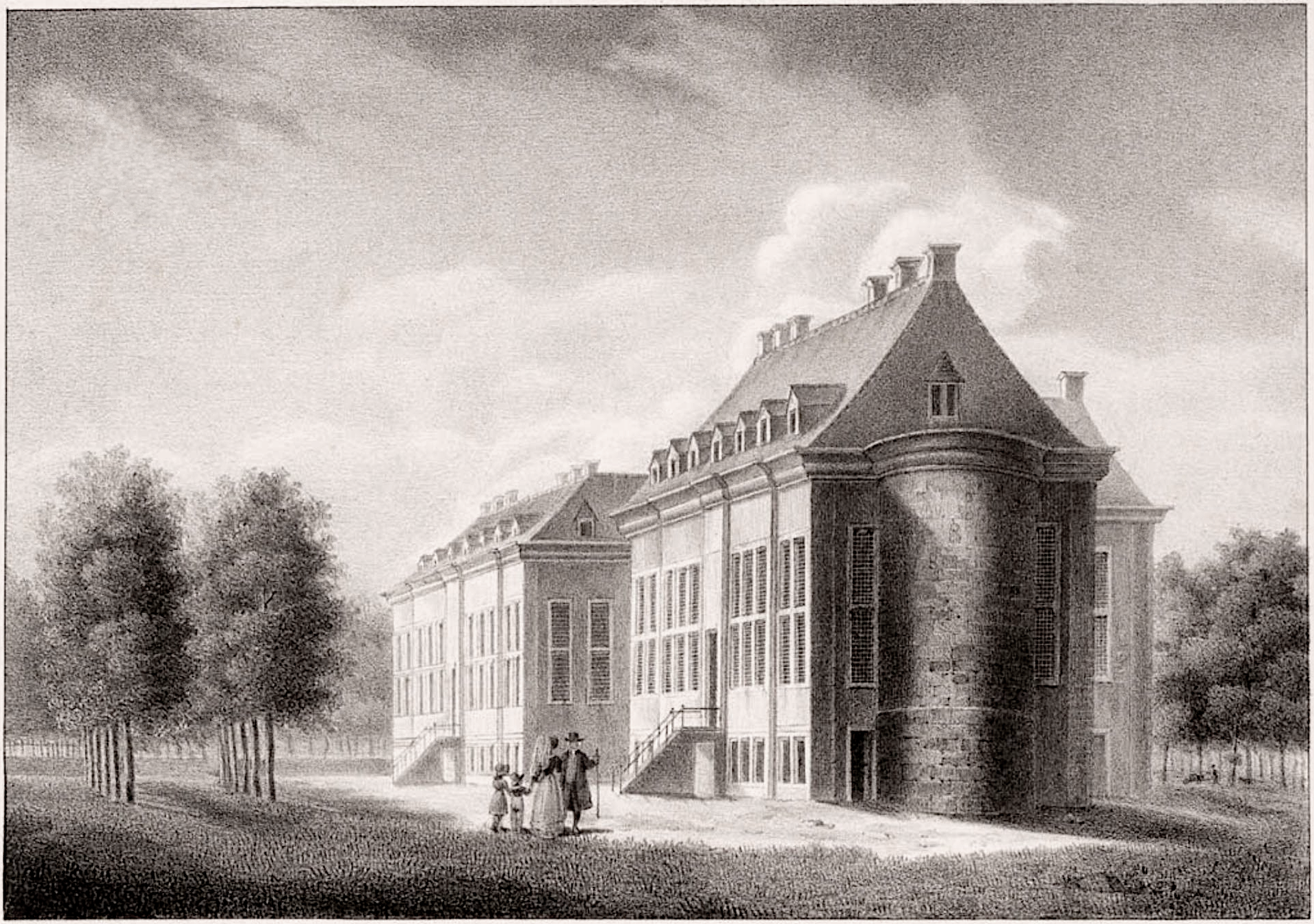 Oranjewoud Palace in Friesland, located east of Heerenveen. A main building lay (deepened) between the two visible side wings. The design was by Daniël Marot (I). Oranjewoud Palace was neglected and was demolished around 1795. Owners: 1676-1696 Albertine Agnes of Orange-Nassau 1696-1726 Henriette Amalia of Anhalt-Dessau 1726-1765 Maria Louisa of Hesse-Kassel 1765-1795 William IV, Prince of Orange